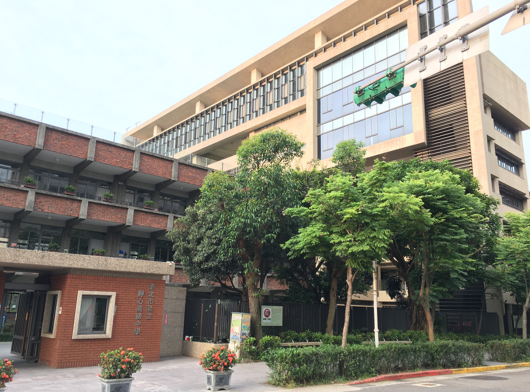 Chinshin High School front view 2